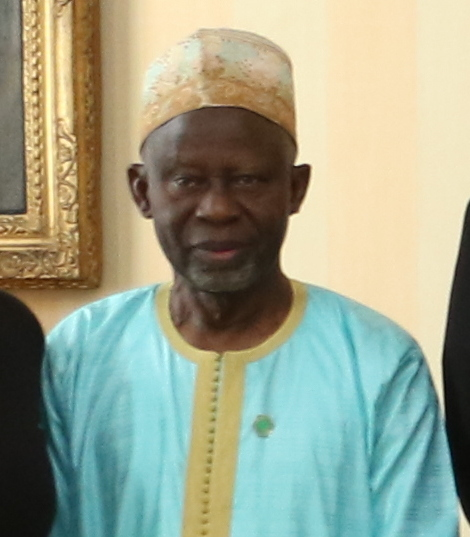 In the margins of CHOGM Foreign Secretary Boris Johnson welcomed his Zimbabwean counterpart Foreign (and Trade) Minister Sibusiso Moyo to London for a roundtable with other international partners.